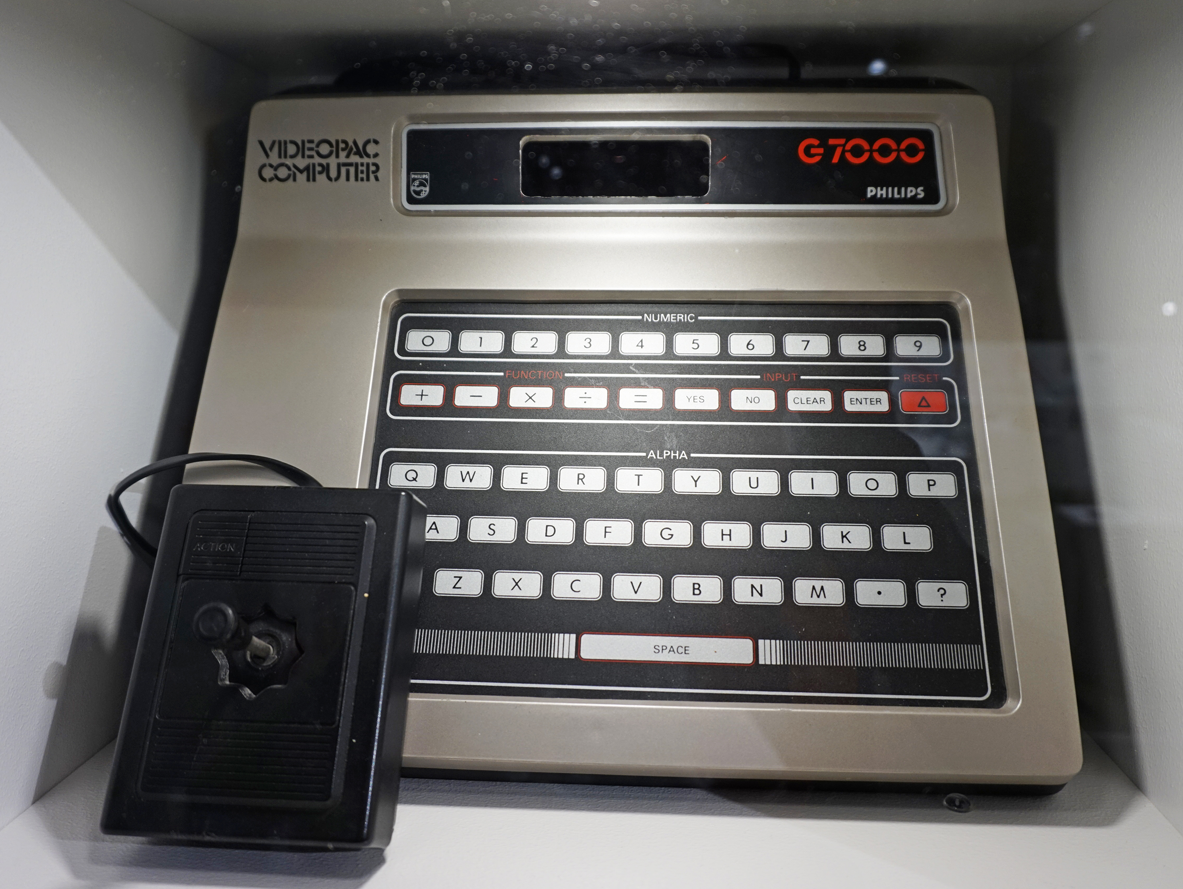 Philips Videopac G7000. The Finnish Museum of Games, Tampere.